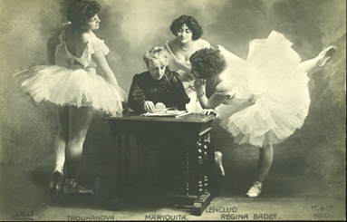 Derivative file (cropped). Portrait of the choreographer Madame Mariquita seated at a carved wooden desk. Three dancers surround her, wearing white tutus. They are Natalia Trouhanova (left), Marthe Lenclud (to Mariquita's rear) and on the right, Regina Badet, leaning over the desk with her left leg raised in an arabesque.